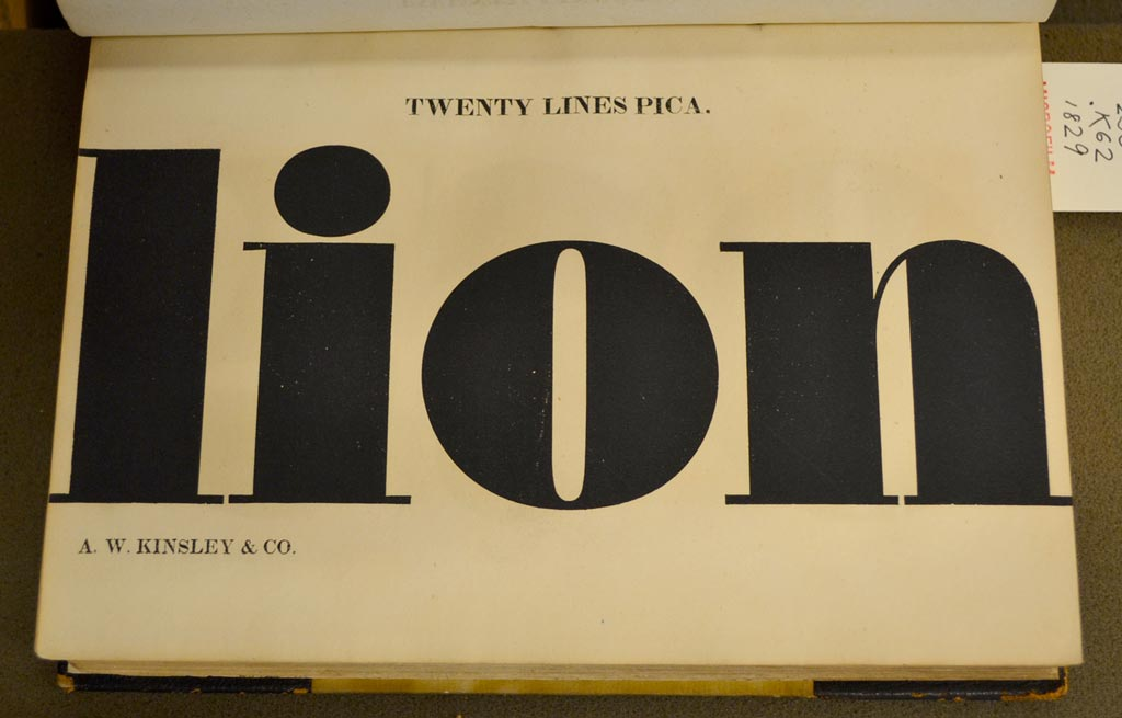 An ultra-bold Didone typeface from the A.W. Kinsley & Co. foundry, 1829.